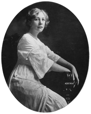 Mary Cynthia Dickerson (1866–1923), American biologist. Possibly taken ca. 1912.